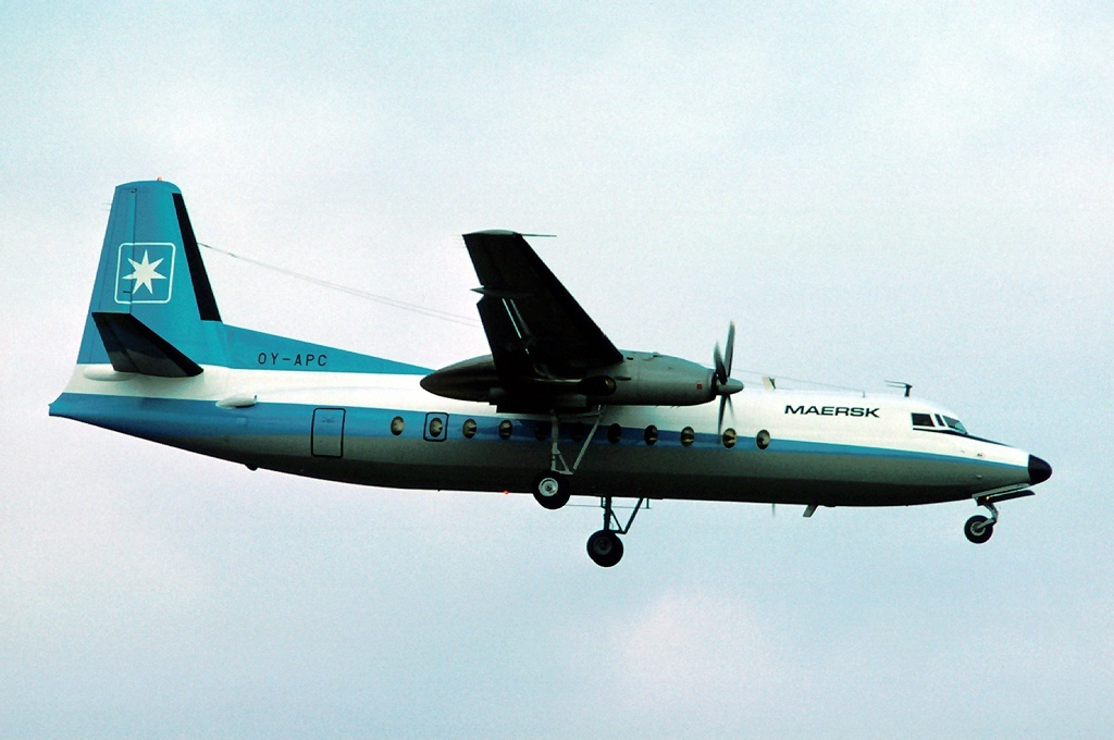 Maersk Air Fokker F-27-500 OY-APC at Zurich International Airport